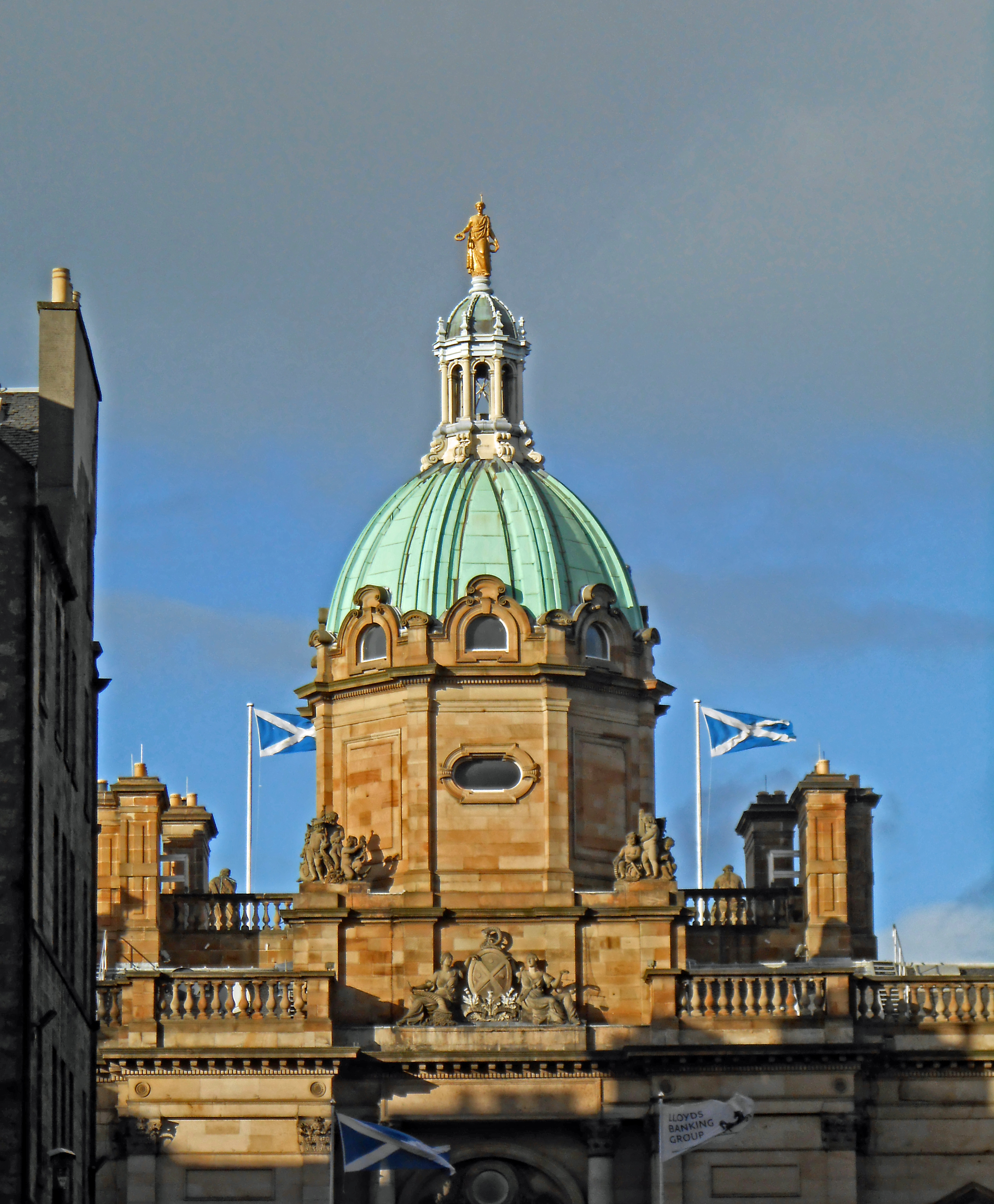 Seen from Lawnmarket, Edinburgh.